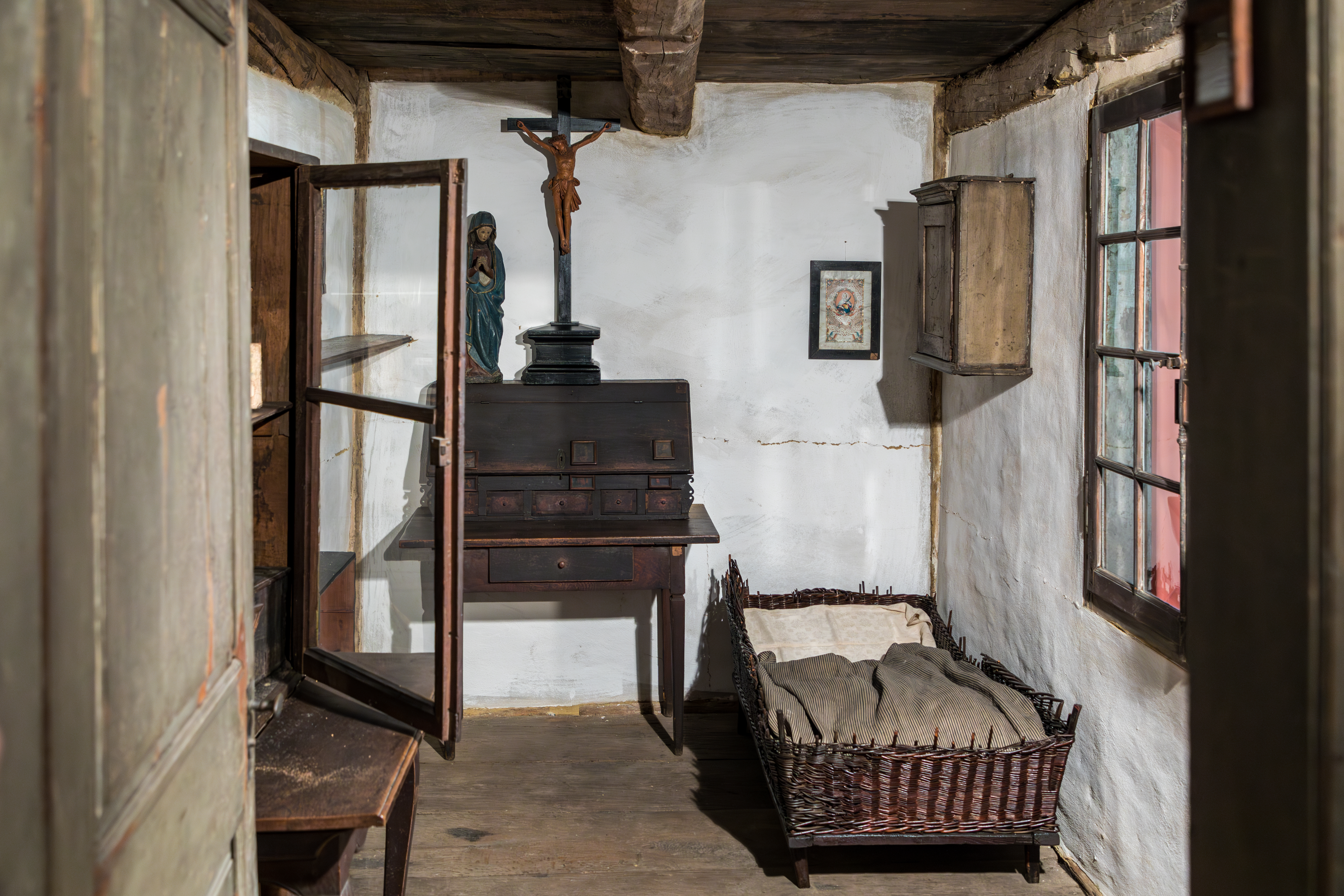 Anna Katharina Emmerick Memorial of the Holy Cross Church, Dülmen, North Rhine-Westphalia, Germany This image shows a heritage building in Germany, located in the North Rhine-Westphalian city Dülmen (no. 16).